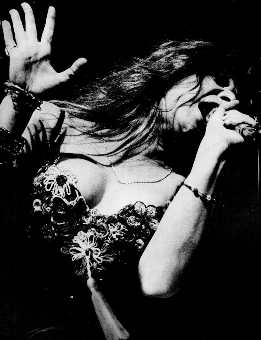 Photo of Janis Joplin performing from a trade ad for her "Greatest Hits" album, which was released after her death.